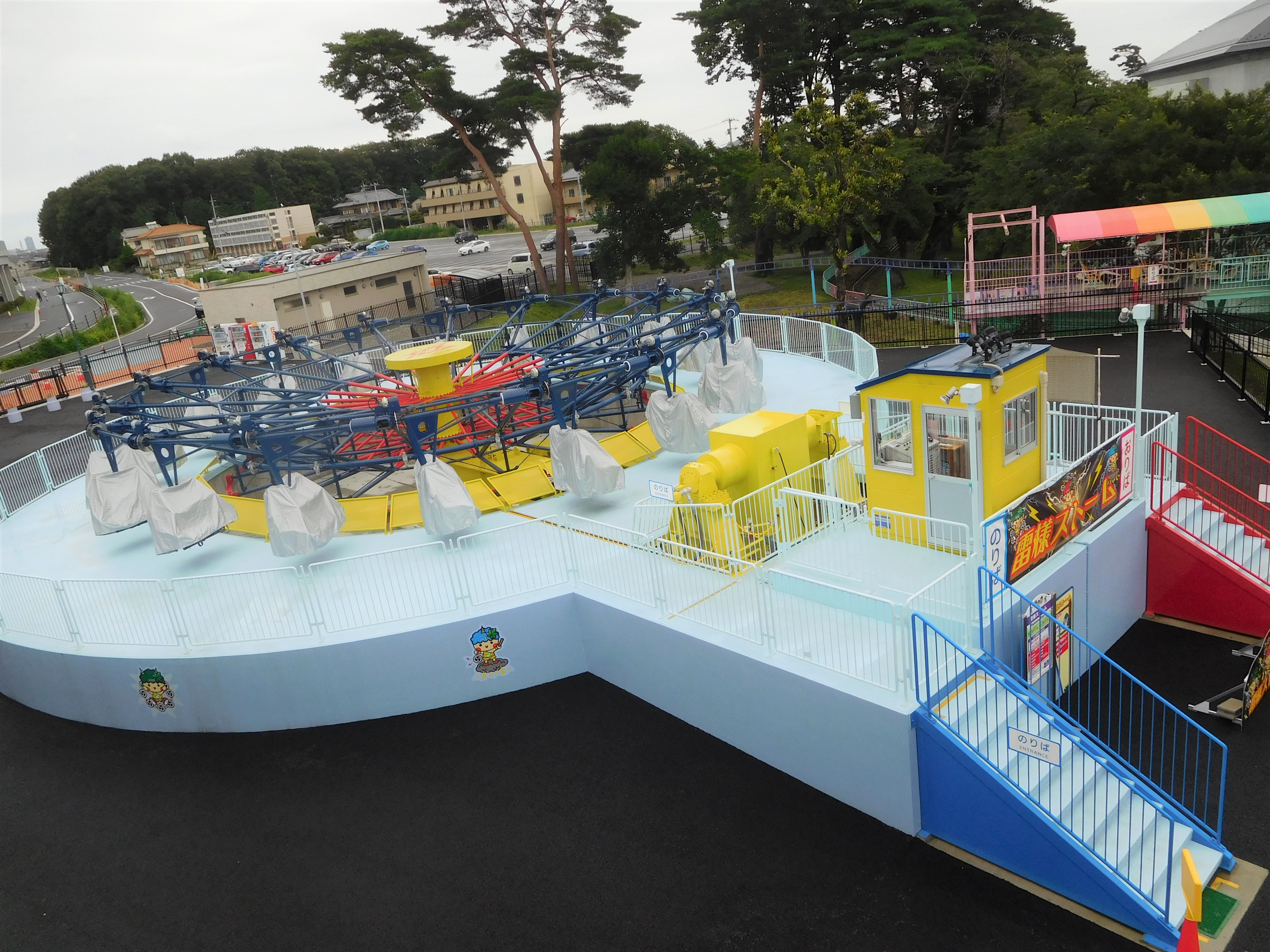 This is the Raisama Storm of Tochinoki Family Land in Utsunomiya, Tochigi, Japan.